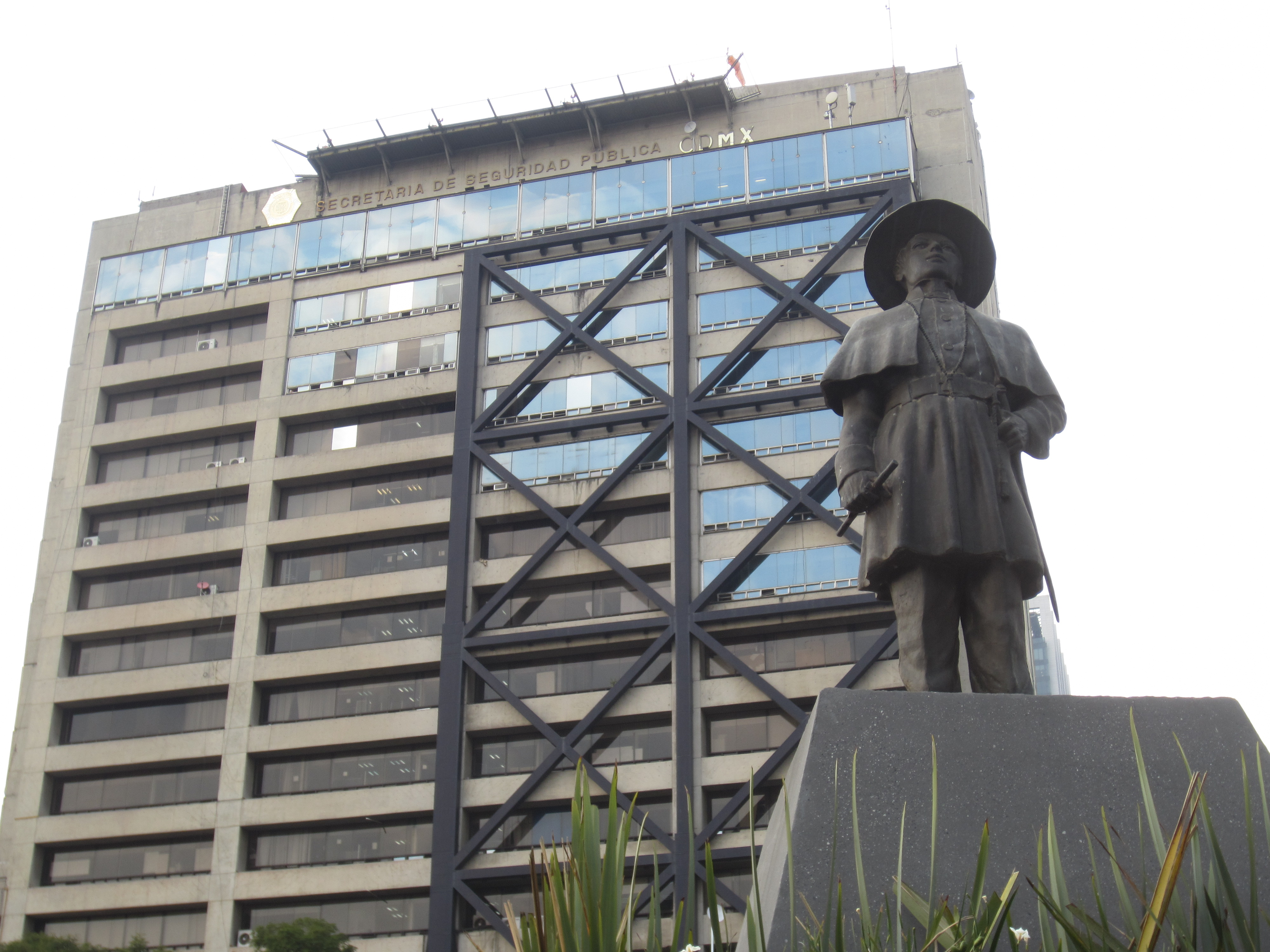 Monument to Sereno. Glorieta de los Insurgentes, Mexico City (2018)